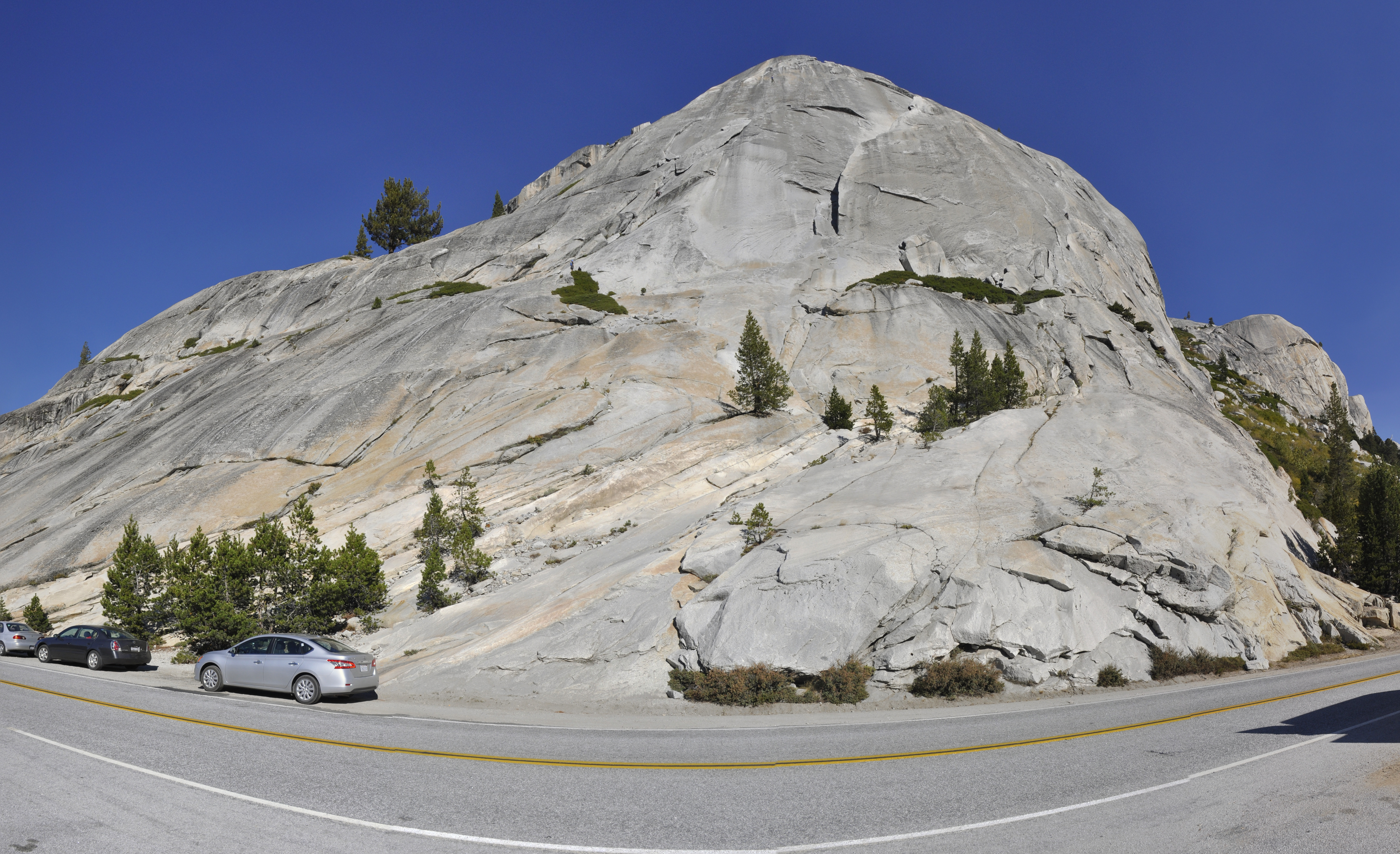 Tuolumne Meadows section of Yosemite National Park. Stately Pleasure Dome from South